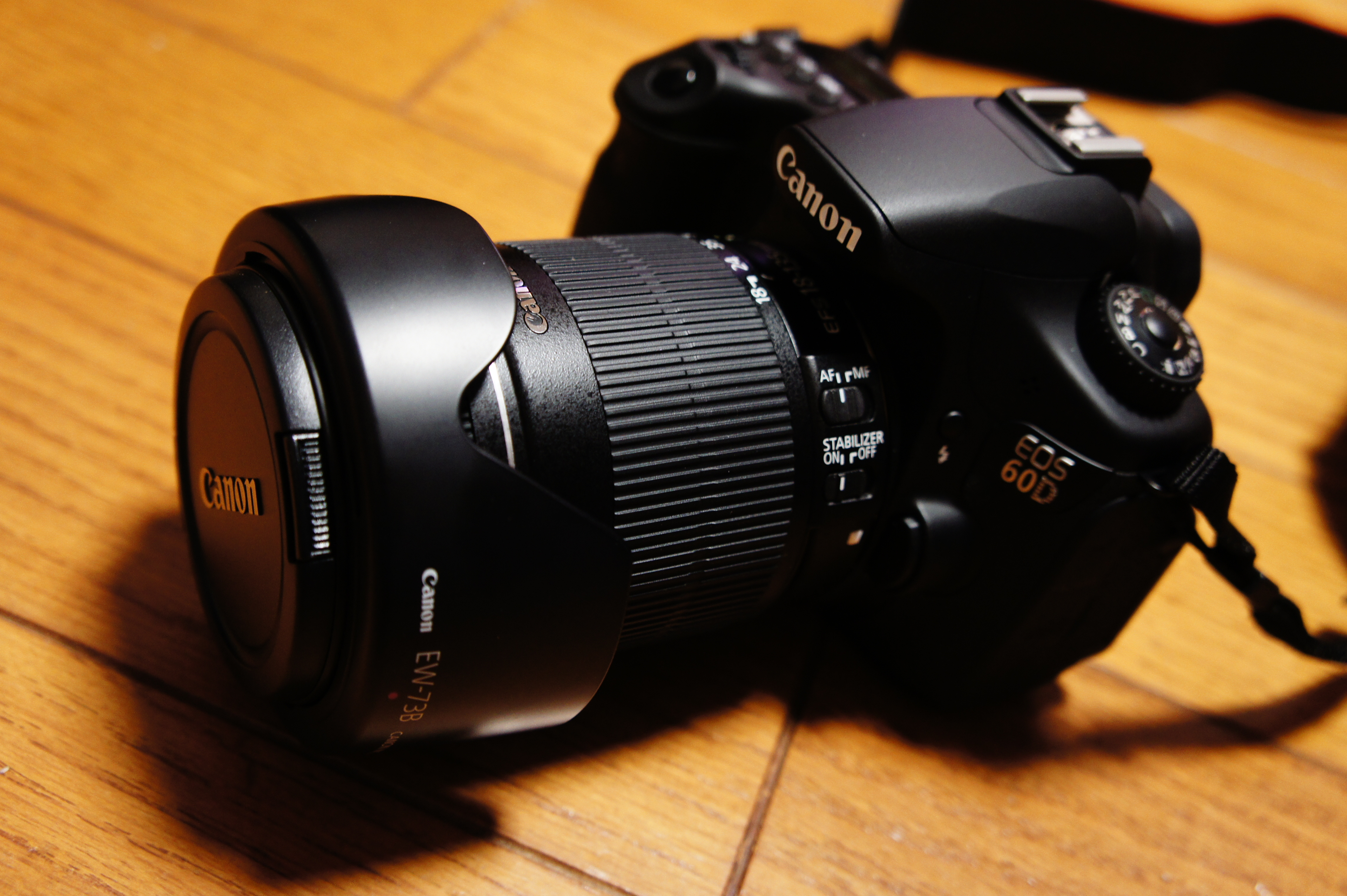 Canon EOS 60D SLR camera